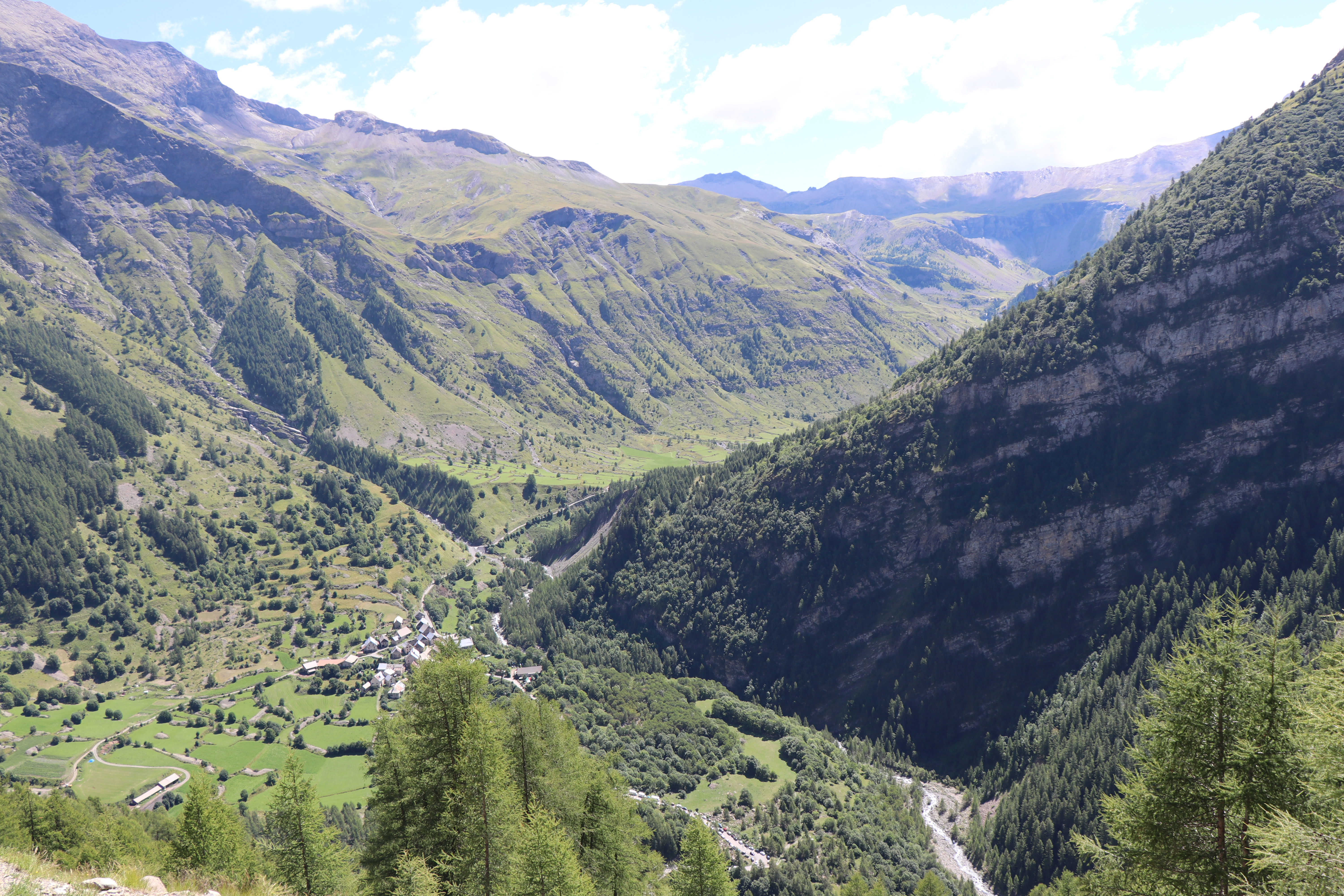 View of Prapic village, Orcières, in France High Alps